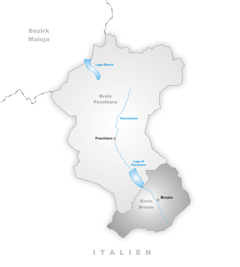 Municipality Brusio